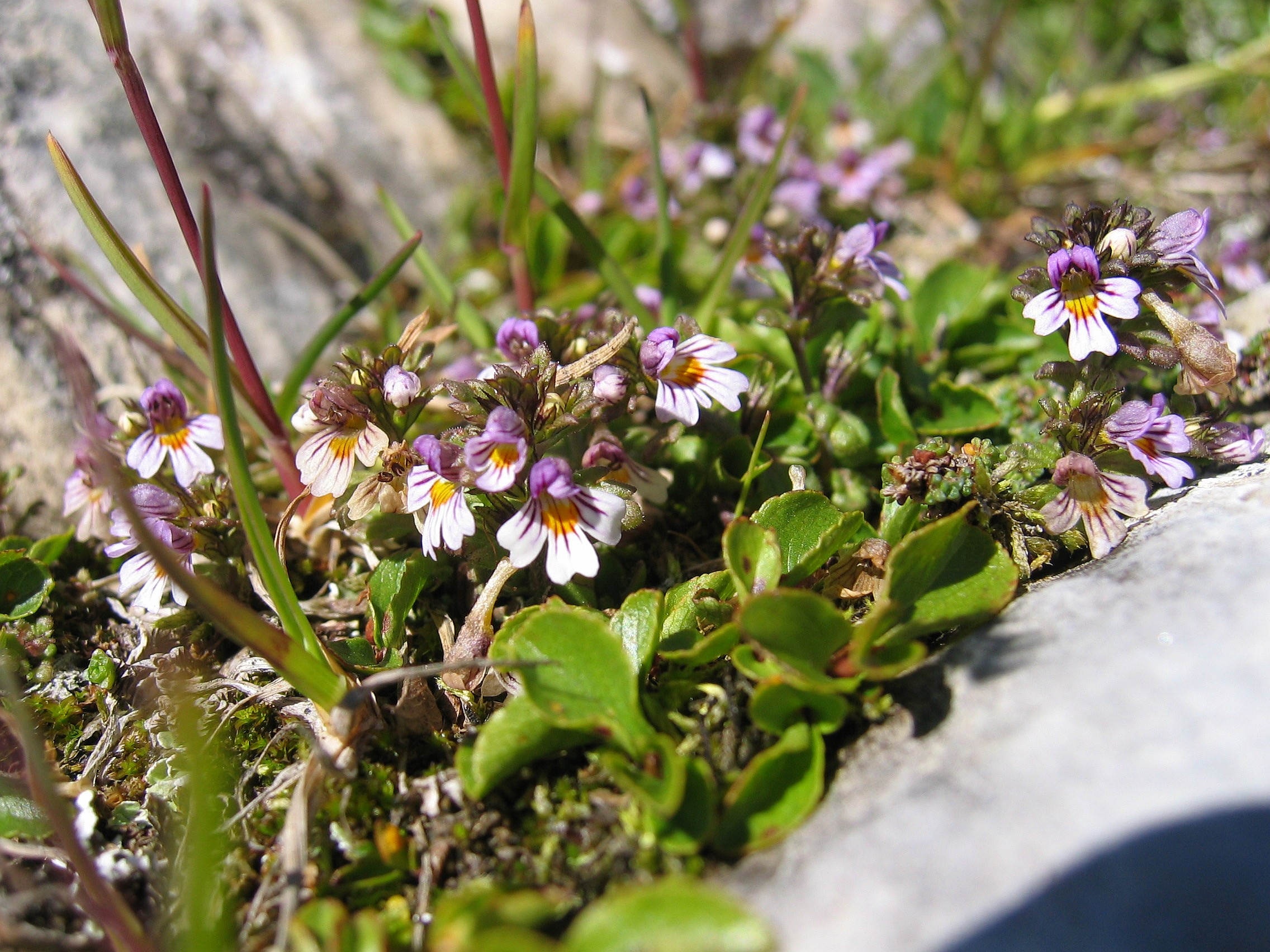 Euphrasia minima, Near Frauenwand, Tyrol, Austria